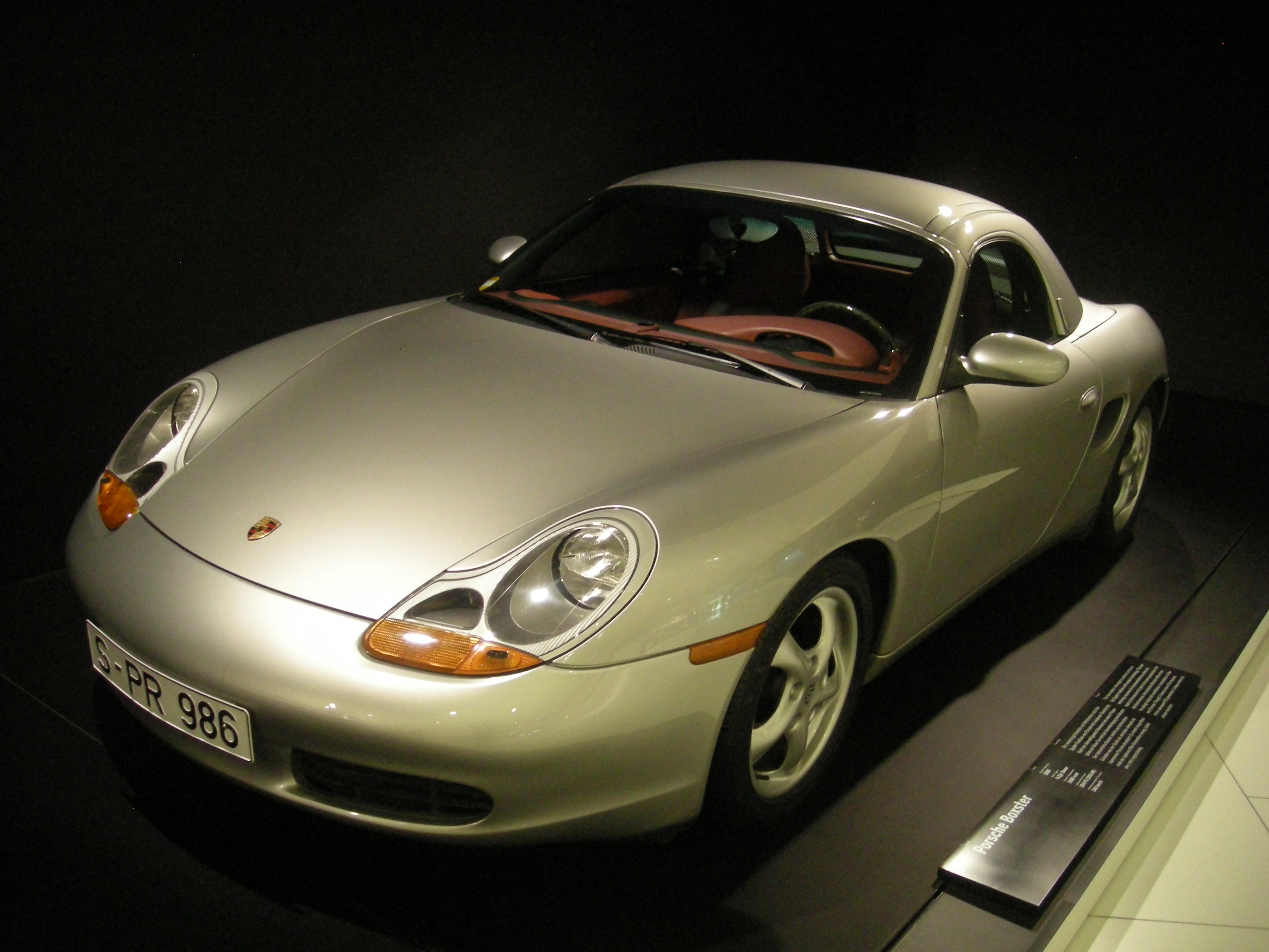 A 1996 Porsche Boxster inside the Porsche Museum in Stuttgart, Baden-Württemberg (Germany).